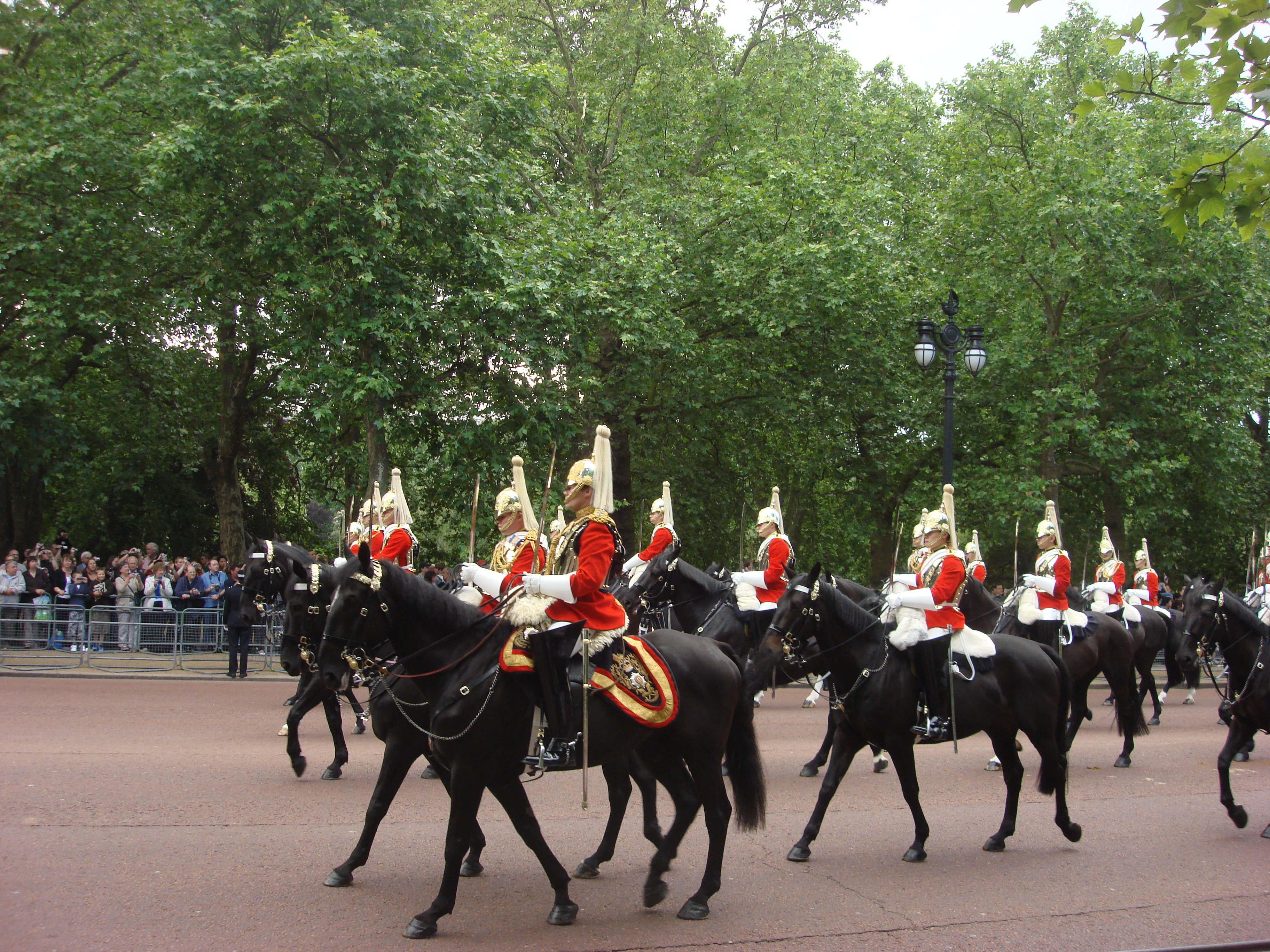 Trooping the Colour 2009